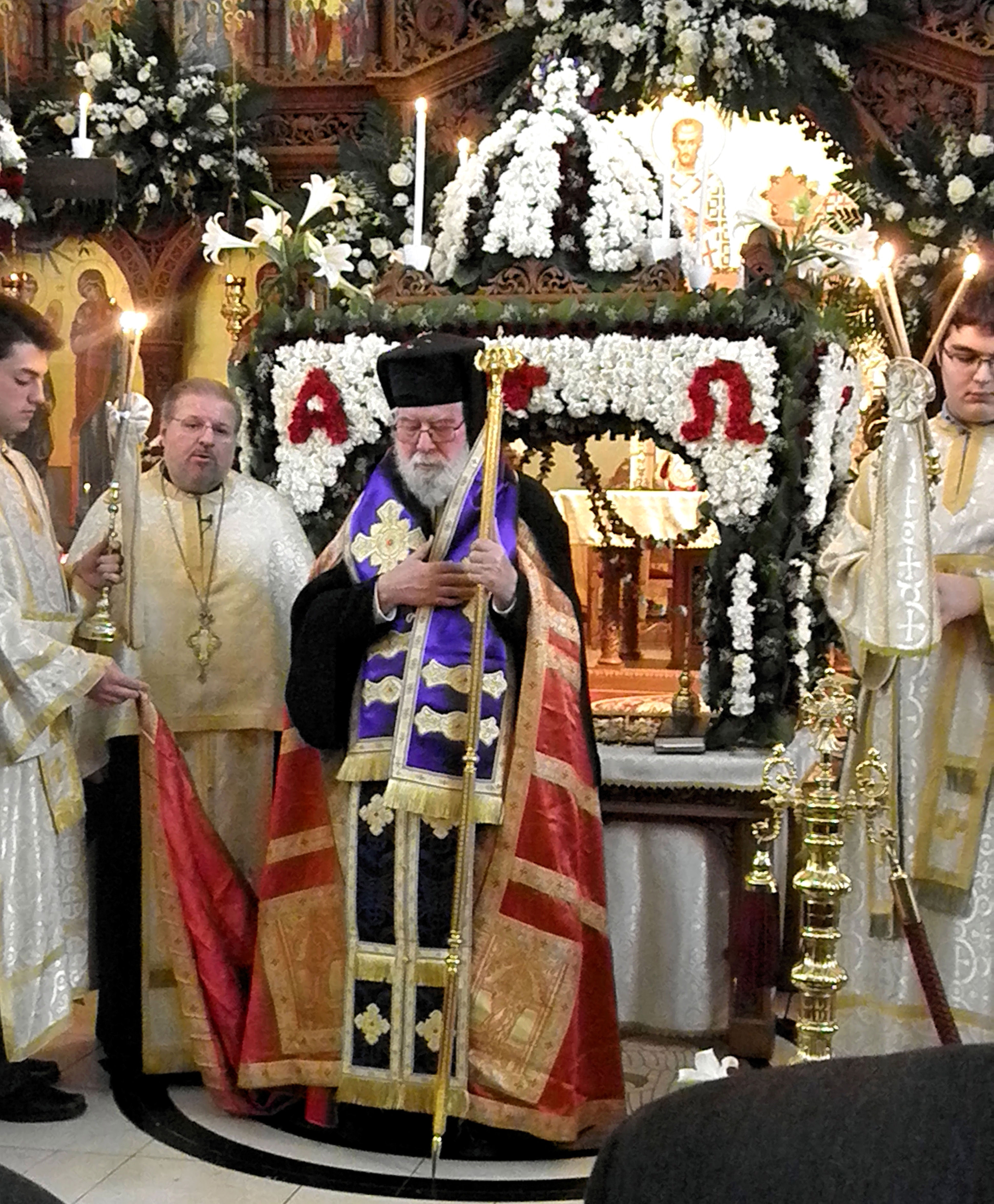 His Grace Bishop Christophoros (Rakintzakis) of Andida with Very Reverend Protopresbyter Panagiotis Avgeropoulos on the Vespers of Good Friday afternoon (The Apokathylosis Service), 2014. Annunciation of the Virgin Mary Greek Orthodox Cathedral, Toronto.